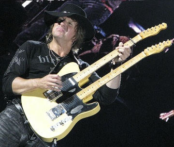 Richie Sambora with his double neck Telecaster in Barcelona 2008.